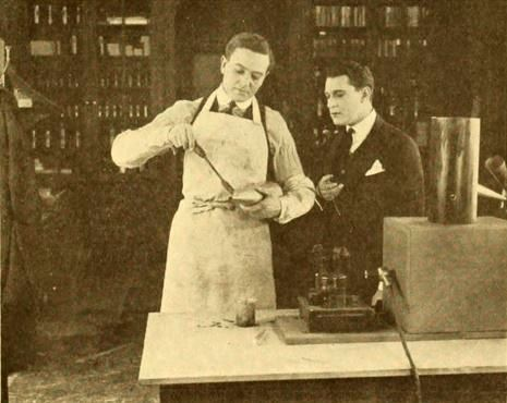 Still from the American film serial The Carter Case (1919) with Herbert Rawlinson and William Pike, on page 1769 of the March 29, 1919 Moving Picture World.